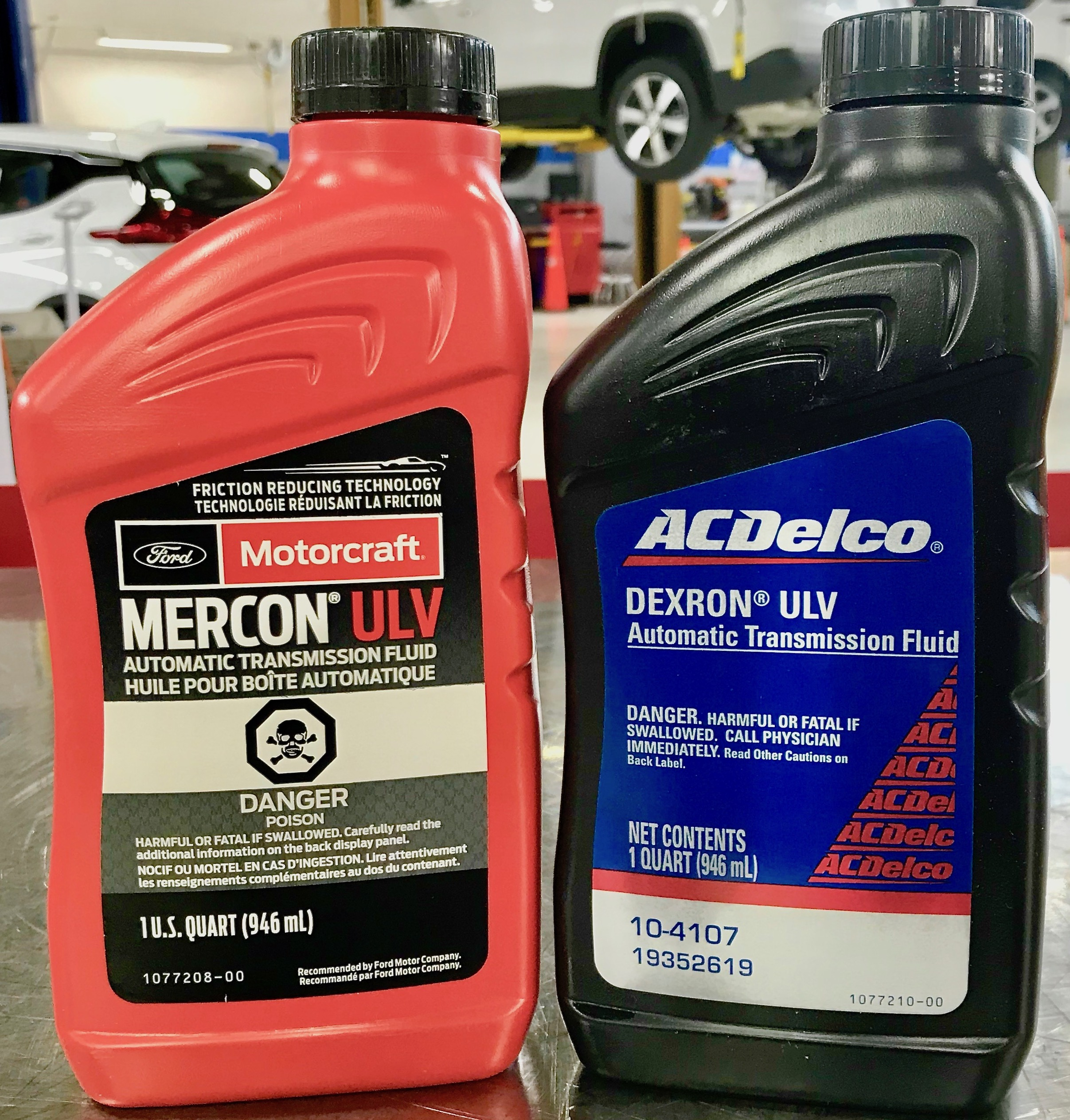 2014 Mercon ULV and Dexron-ULV (Ultra-Low Viscosity) ATF